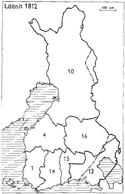 Finnish counties 1812 1 Turku and Pori, 14 Uusimaa and Tavastia, 15 Kymenkartano, 16 Savonia and Karelia, 4 Vaasa, 10 Oulu, 13 Viipuri